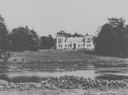 1877 estate in Ceranów village, Sokołów County, Masovian Voivodeship, Poland.